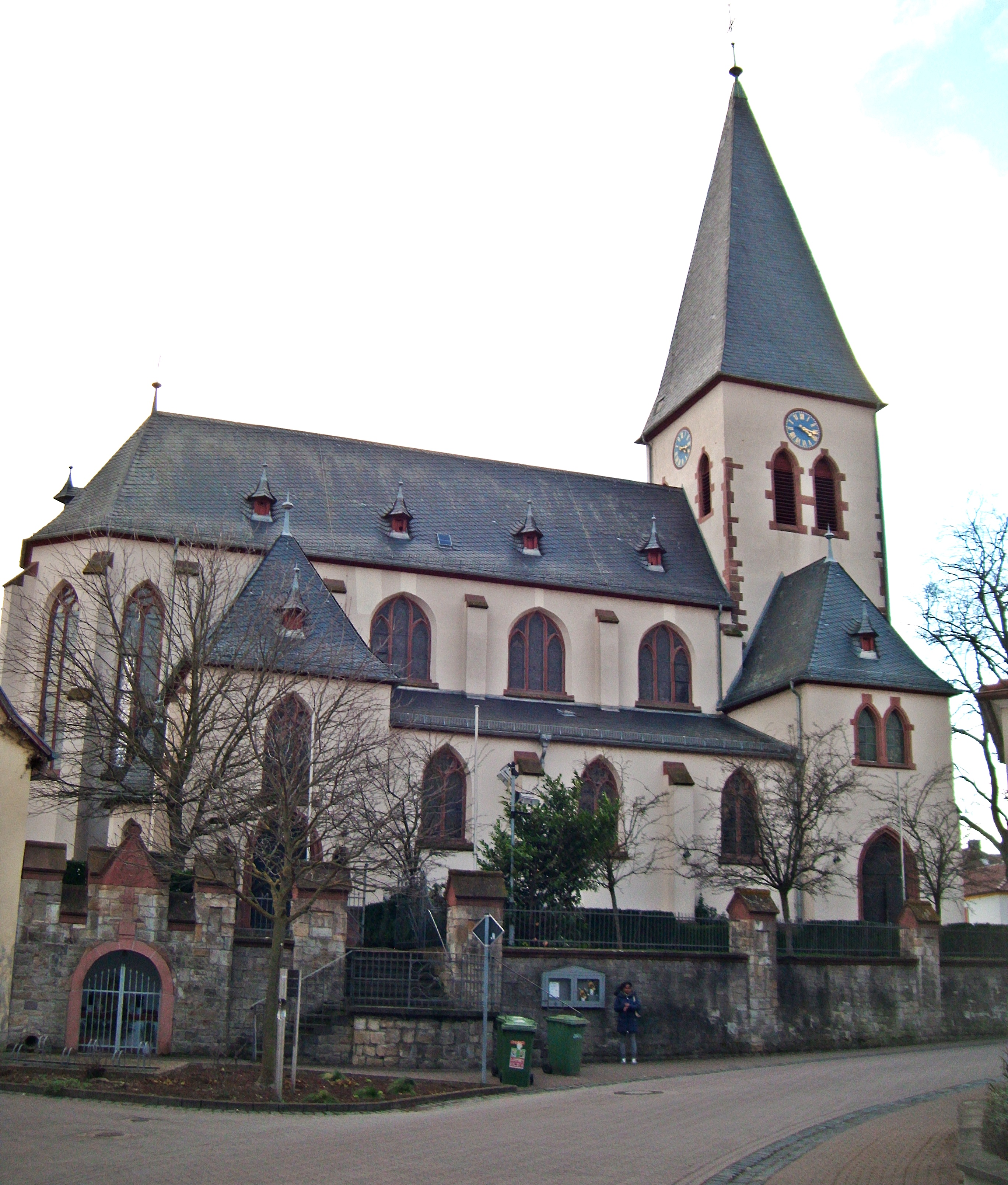 Gundheim, kath. Pfarrkirche St. Laurentius